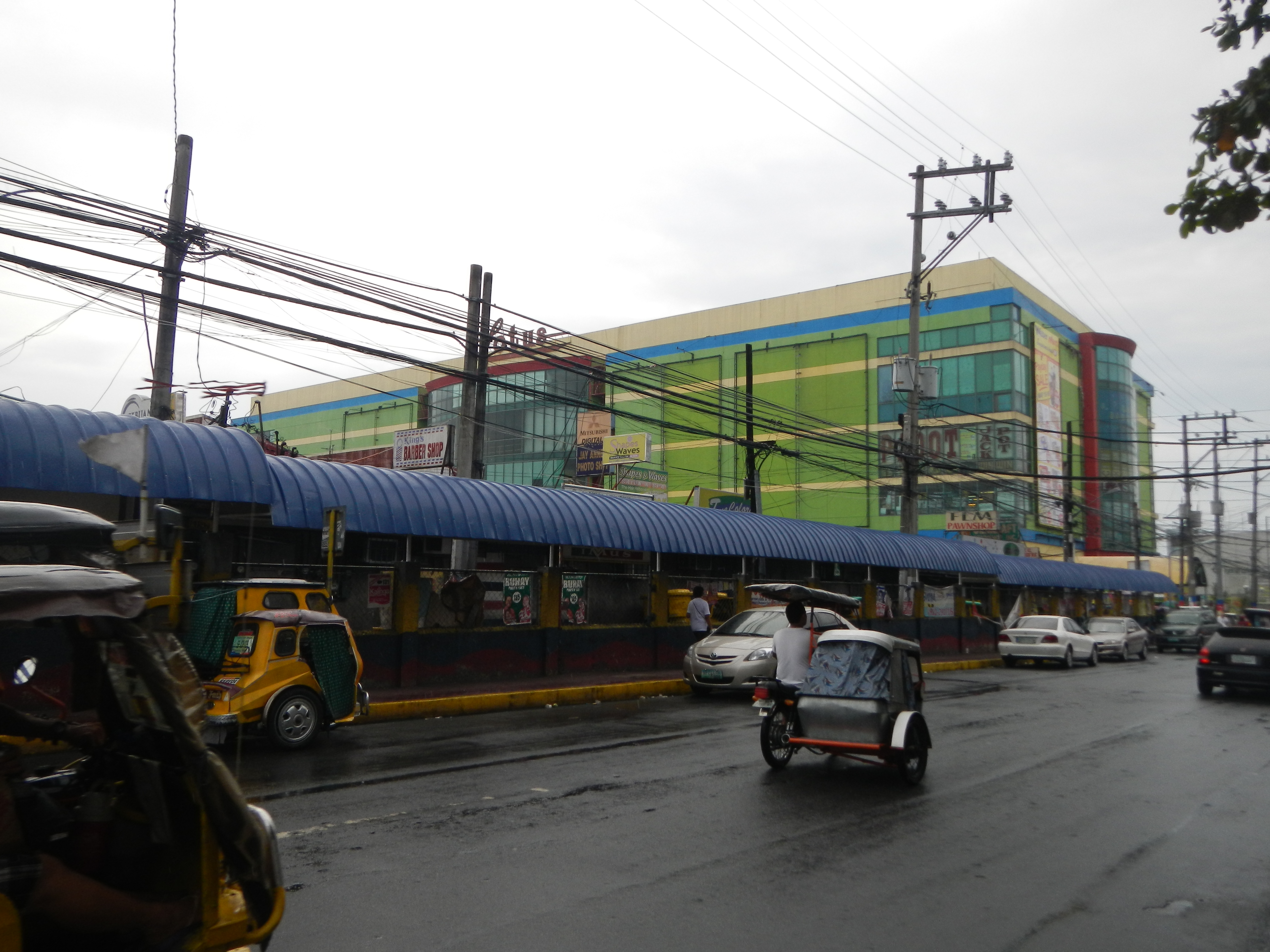 Lotus Mall (Imus City, Cavite)[1] Coordinates: 14°25'25"N 120°56'24"E [2] Iglesia Ni Cristo - Lokal ng Imus (Imus City, Cavite) Coordinates: 14°25'25"N 120°56'29"E Elorde Boxing Gym Opens in Imus, Cavite - Philippine Boxing[3] --- Imus[4] The City of Imus (Filipino: Lungsod ng Imus) is the officially designated capital city of the province of Cavite in the Philippines. The former municipality was officially converted into a city following a referendum on June 30, 2012. Based on the 2010 local government unit (LGU) income of Imus, the former town is classified as a first-class component city of Cavite with a population of 301,624 people according to the 2010 census.[5] This place is situated in Cavite, Region 4, Philippines, its geographical coordinates are 14° 25' 47" North, 120° 56' 12" East and its original name (with diacritics) is Imus. [6] Coordinates: 14°24'3"N 120°55'57"E ---[N.B. Very unfortunate and fortunate photography of Imus, Cavite: cloudy and 80% rain upon my Nikon AW100 waterproof shockproof camera. From Bulacan I took photo of Imus Cathedral and Imus Cavite starting 1:39 p.m. Caught in the rain, I did beg the Imus Cathedral in-charge to open all the Lights and he did upon Order from the Parish Office. I am so fortunate that only 2 or 3 people were inside, and nothing to block my photos; unfortunate, however, is the rain that tormented my photos but my Nikon sensor fought and I am sharing Wikimedia Commons and Wikipedia these rare, original and sole photos of Imus, Cavite, 98% never photographed since the Battle of Imus. I finished photography at 4:18 p.m. and started uploading via slow internet at 7:54 pm - I hereby certify that these photos are exclusive for Commons and Wikipedia never uploaded in any Internet or any site, and for the public domain without any condition.]